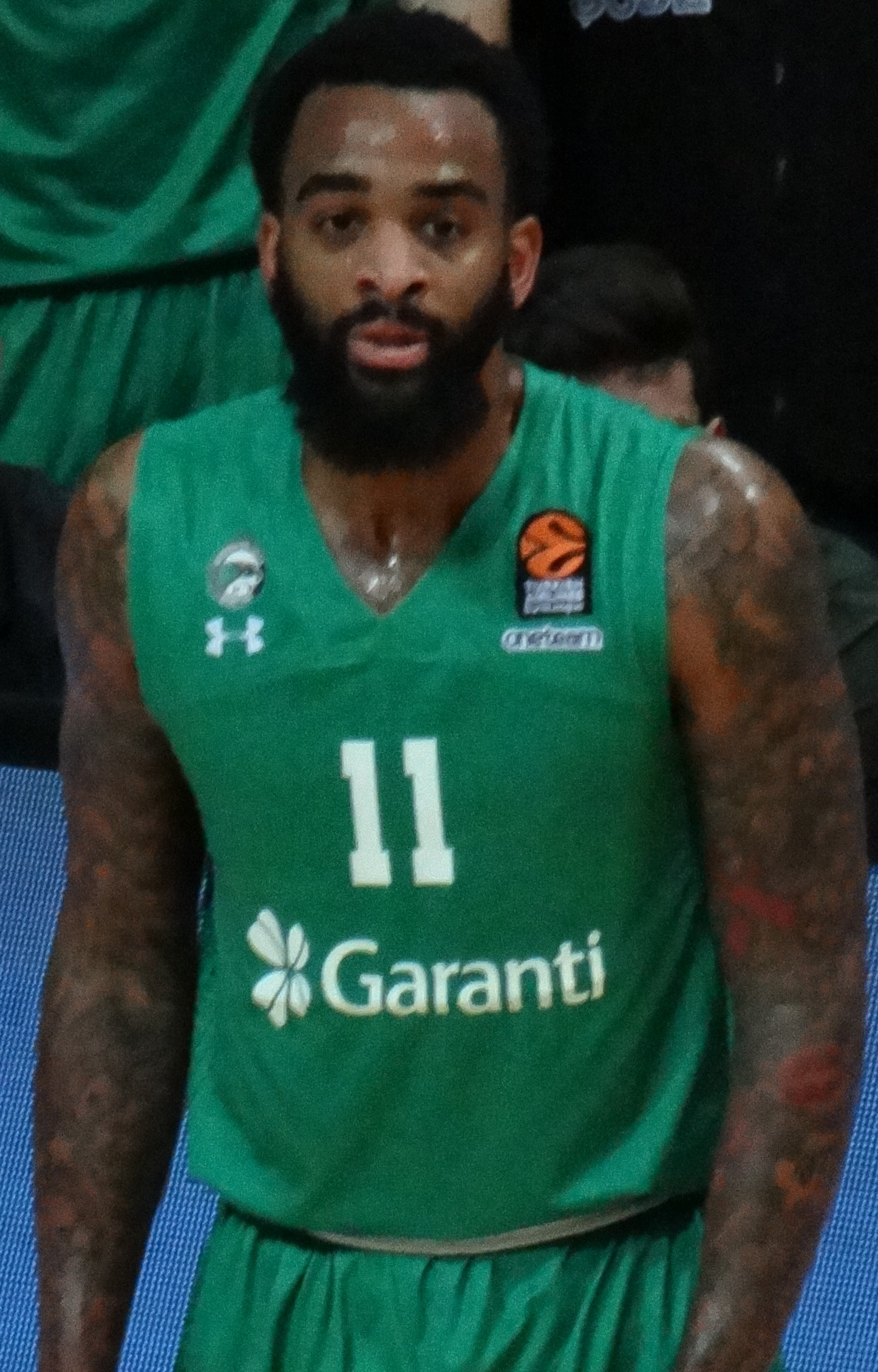 Stanton Kidd 11 Darüşşafaka Tekfen 20181120